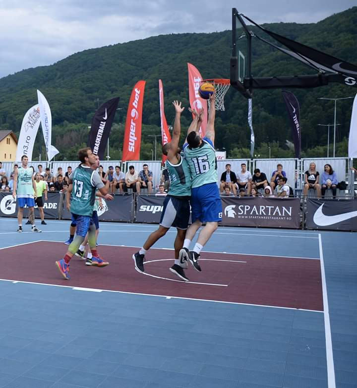 Sport Arena Streetball Piatra-Neamț